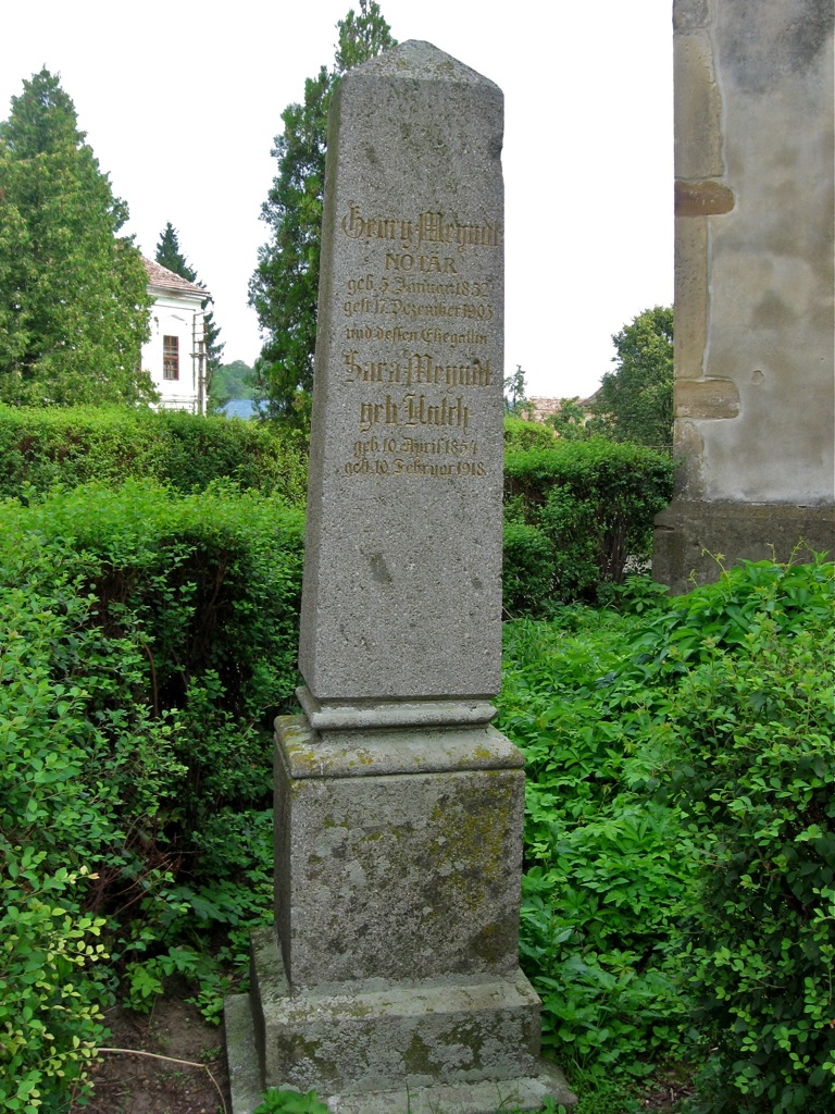 Tombstone of Georg Meyndt and his wife in the churchyard of Reichesdorf/Richiș in Transylvania